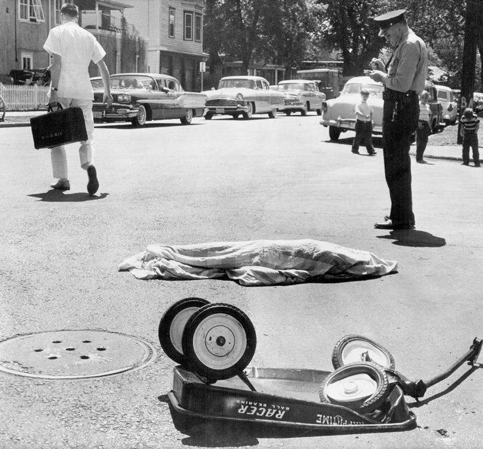 "Wheels of Death", photograph of the covered body of 9-year-old Ralph Fossum after he was killed by a passing car in Minneapolis. Winner of the 1959 Pulitzer Prize for Photography.